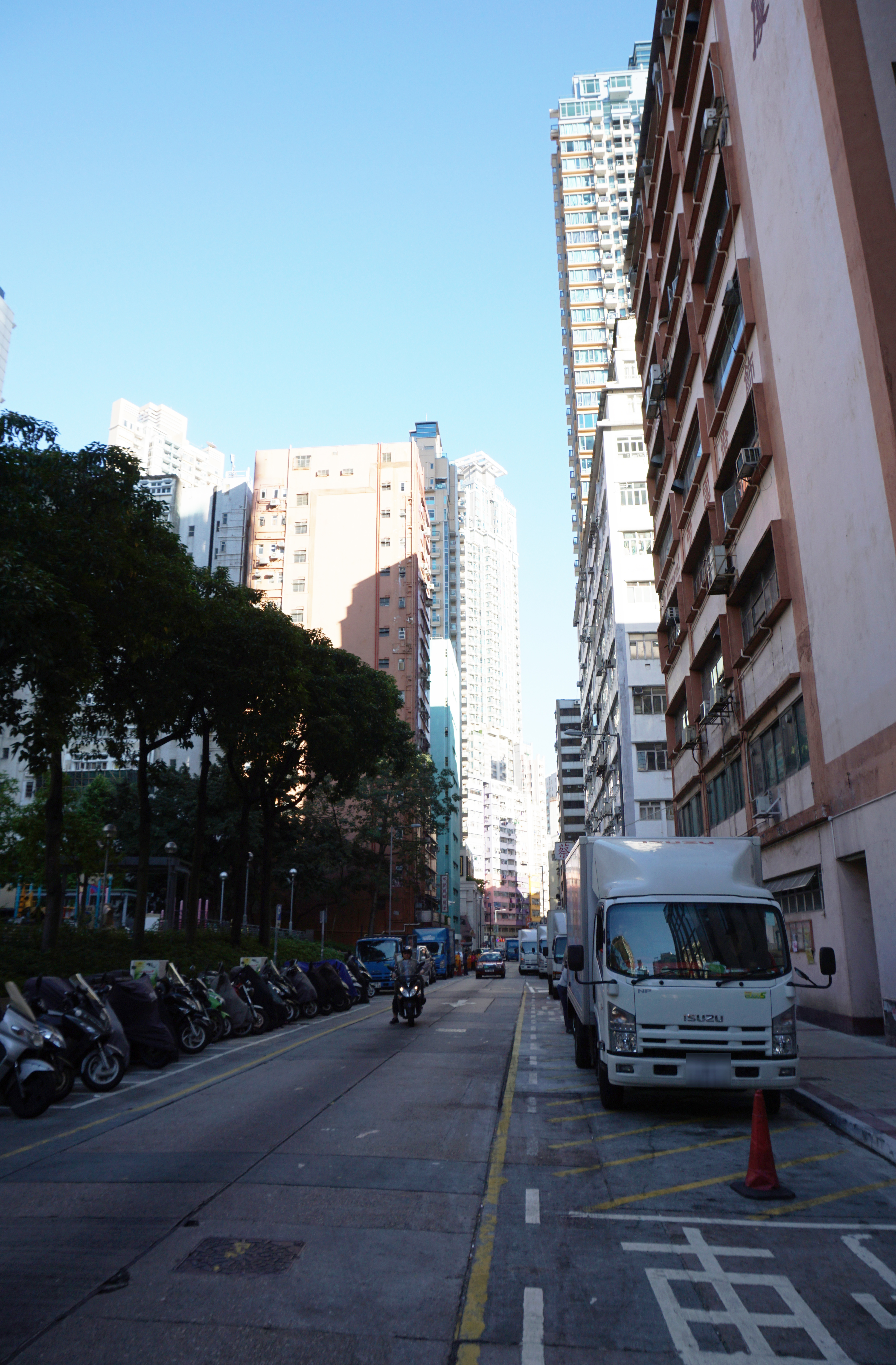 Ivy Street in Tai Kok Tsui, Hong Kong.